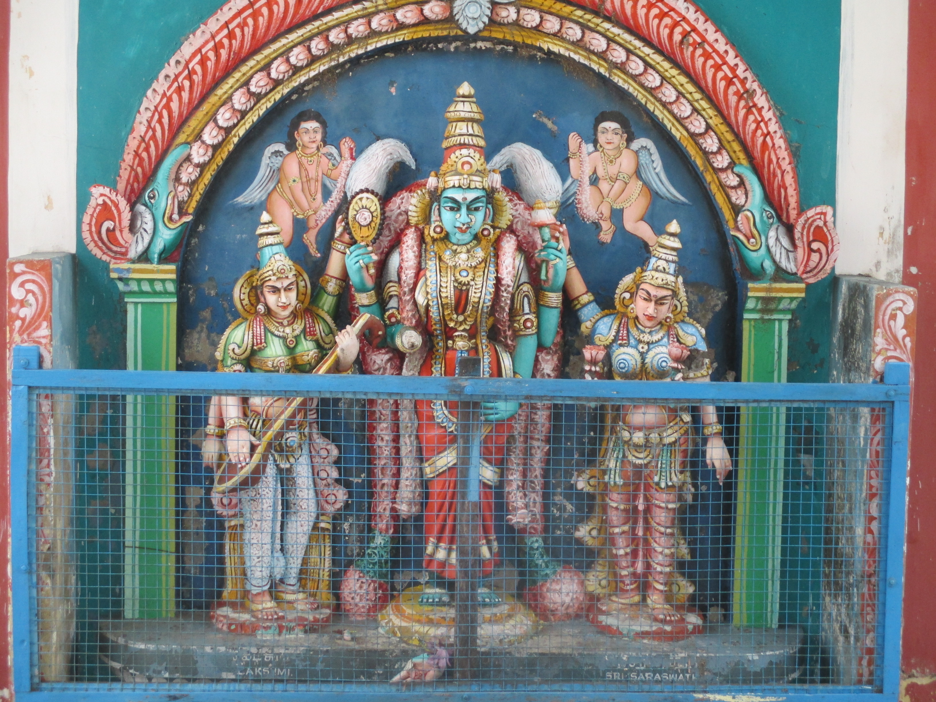 Tirunageswaram